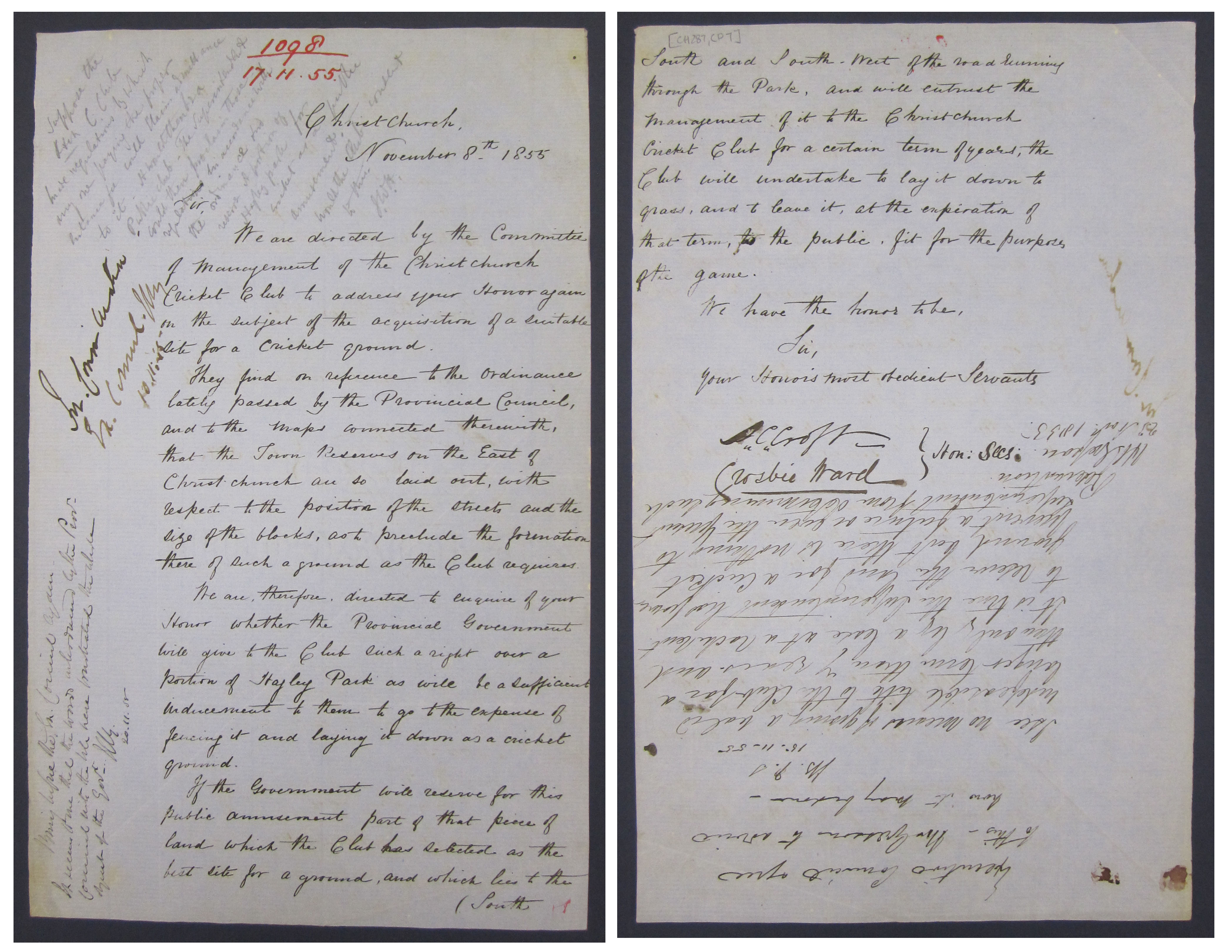 On November 8 1855 Crosbie Ward, an elected member of the Canterbury Provincial Council, requested to the Provincial Government that a cricket pitch was put in place at Hagley Park in Christchurch. An earlier application for land in town for the purpose of cricket (between Chester and Armagh Streets) had been declined by the Provincial Government. In 1856 Christchurch Cricket Club were successful in securing a lease for a piece of land at Hagley Park, designated for cricket. The acceptance of the lease offer can be seen in this document They had in any case been based at Hagley Park since 1851 (though it wasn’t until the 1860s that their ground was located on the actual Hagley Oval site – as it stands today). This link from Papers Past records the first meeting of Christchurch Cricket Club in 1851 The record presented here is from the Christchurch Office of Archives New Zealand in a series of inwards correspondence received by the Provincial Secretary. The Provincial Secretary was the most important civil servant of the Provincial Government, and his office was its hub. His inwards correspondence is a large series, and it covered all possible facets of the Provincial Government's activities - immigration, education, charitable aid, health, public works (until 1864), goldfields, justice and so on. For further enquiries please Reference: CAAR 19936 CH287 CP7 ICPS 1098/1855 Throughout the Cricket World Cup 2015, Archives New Zealand will be highlighting a selection of cricket related records which are found in our holdings. For further updates on our cricket posts and other streams follow us on Twitter Material from Archives New Zealand